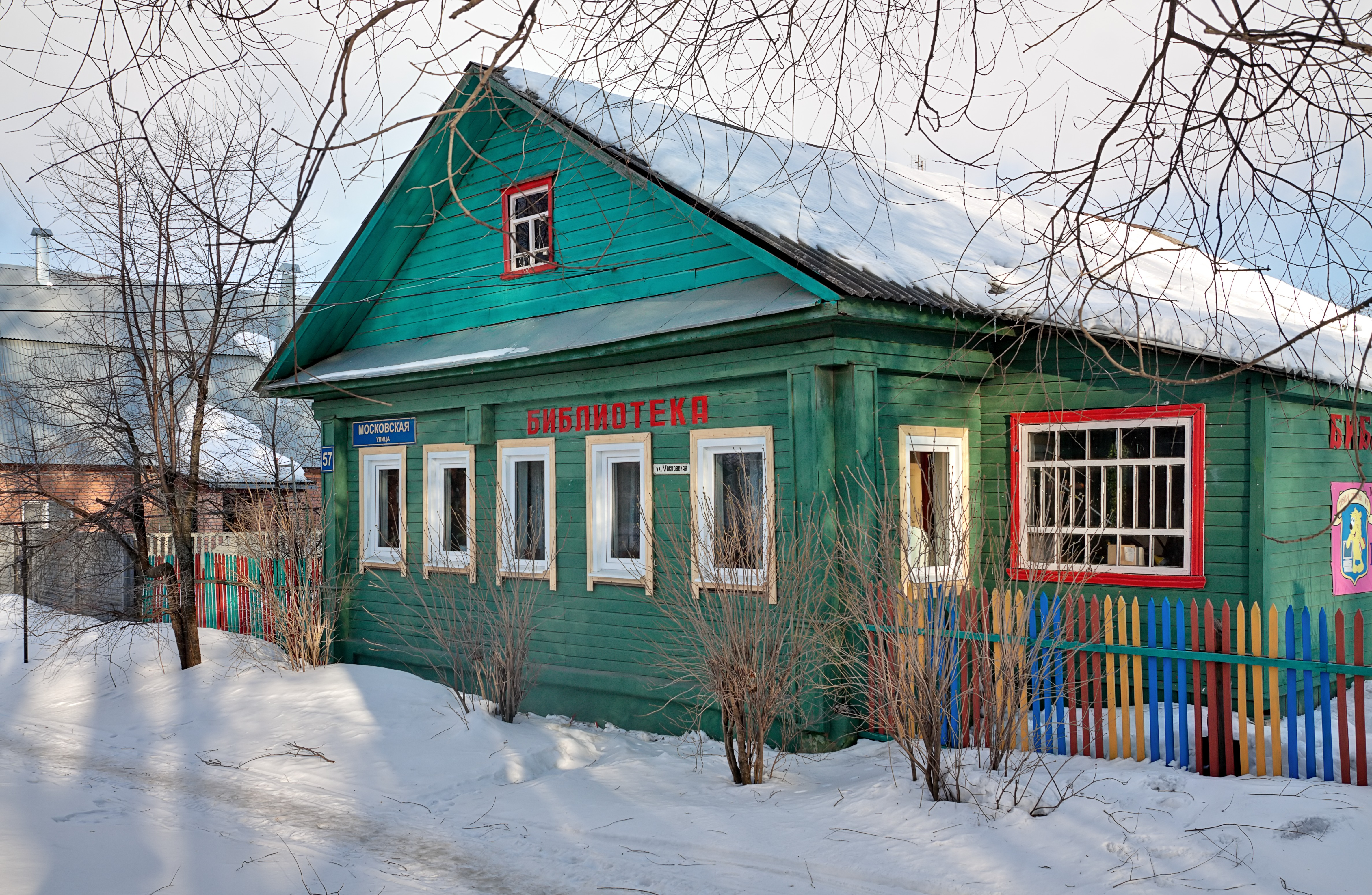 Pereslavl, Moskovskaya street, house 57.